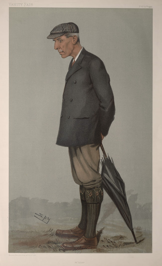 Caricature of Mr Arthur Campbell Ainger. Caption reads "m’tutor".